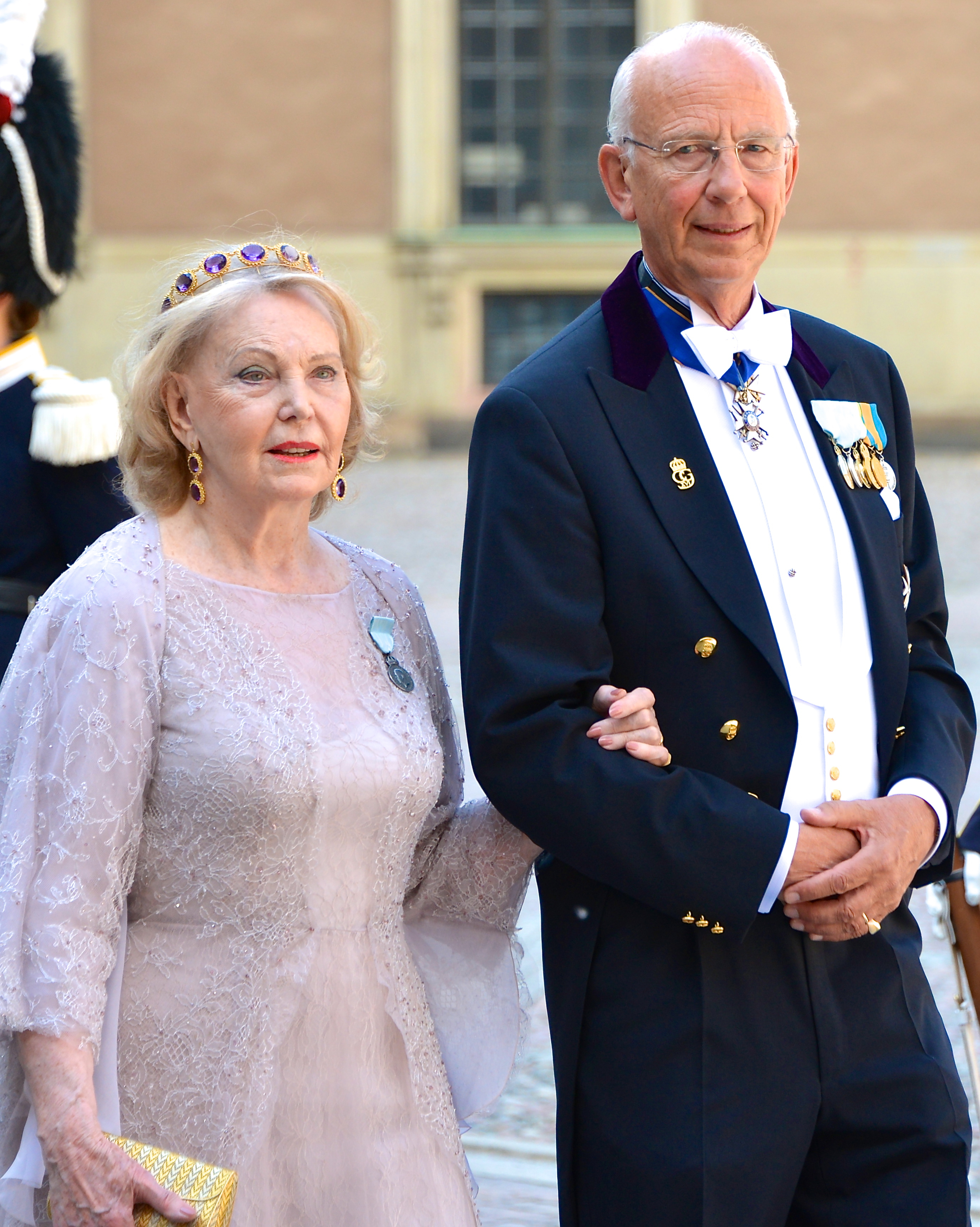 Marianne Bernadotte on the way to the castle church at the Royal Palace in Stockholm before the wedding between Princess Madeleine and Christopher O'Neill June 8, 2013.